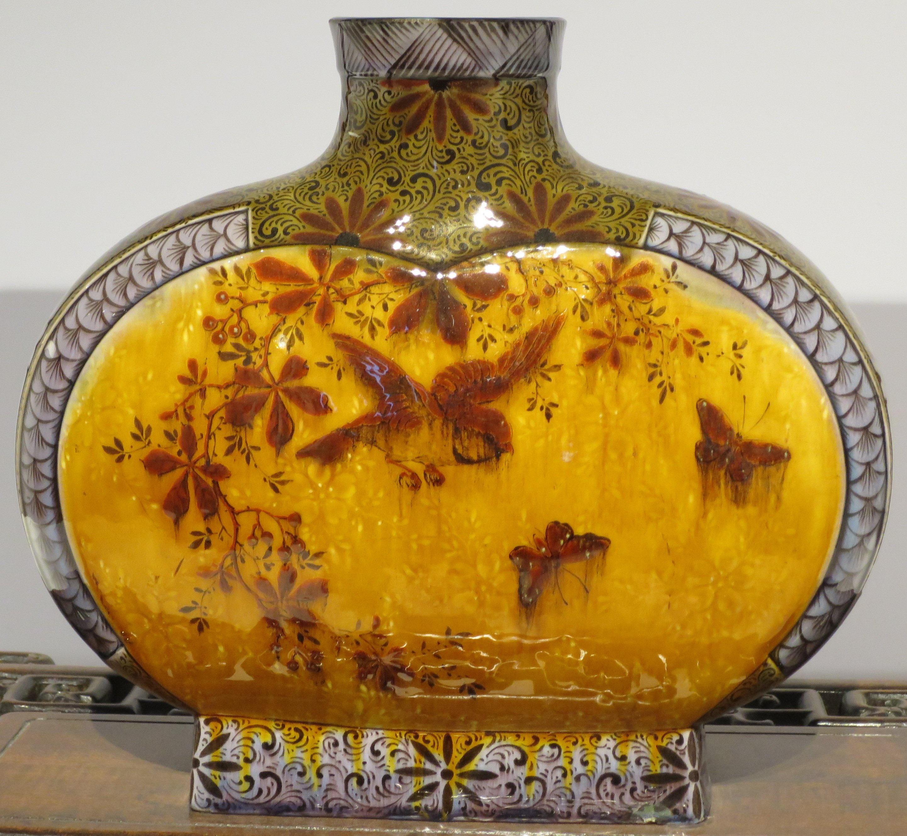 Earthenware vase by Théodore Deck, c. 1889, High Museum of Art